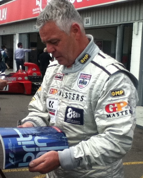 Derek Warwick in the Silverstone pit lane for the 2014 British Grand Prix